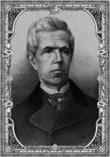 Self-portrait of Joaquín Velázquez de León, Lithograph (1870-1907).